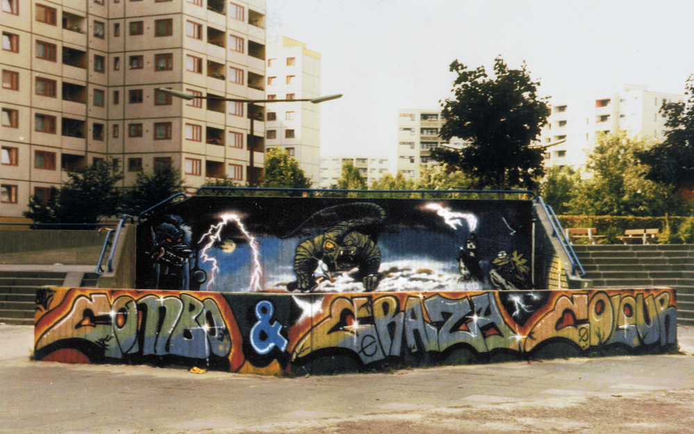 The Denots Crew Grafitti